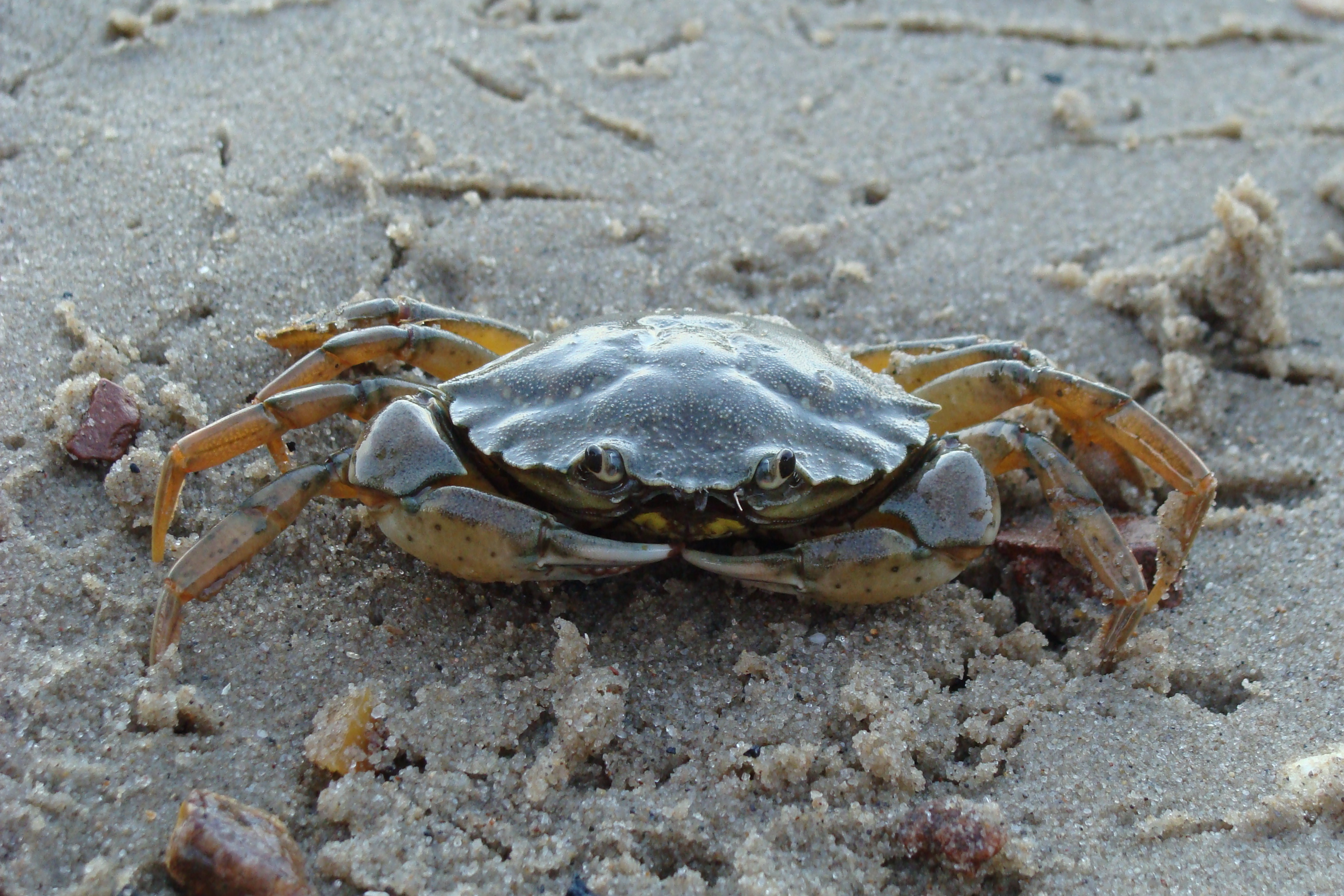 Common shore crab 'Carcinus maenas'